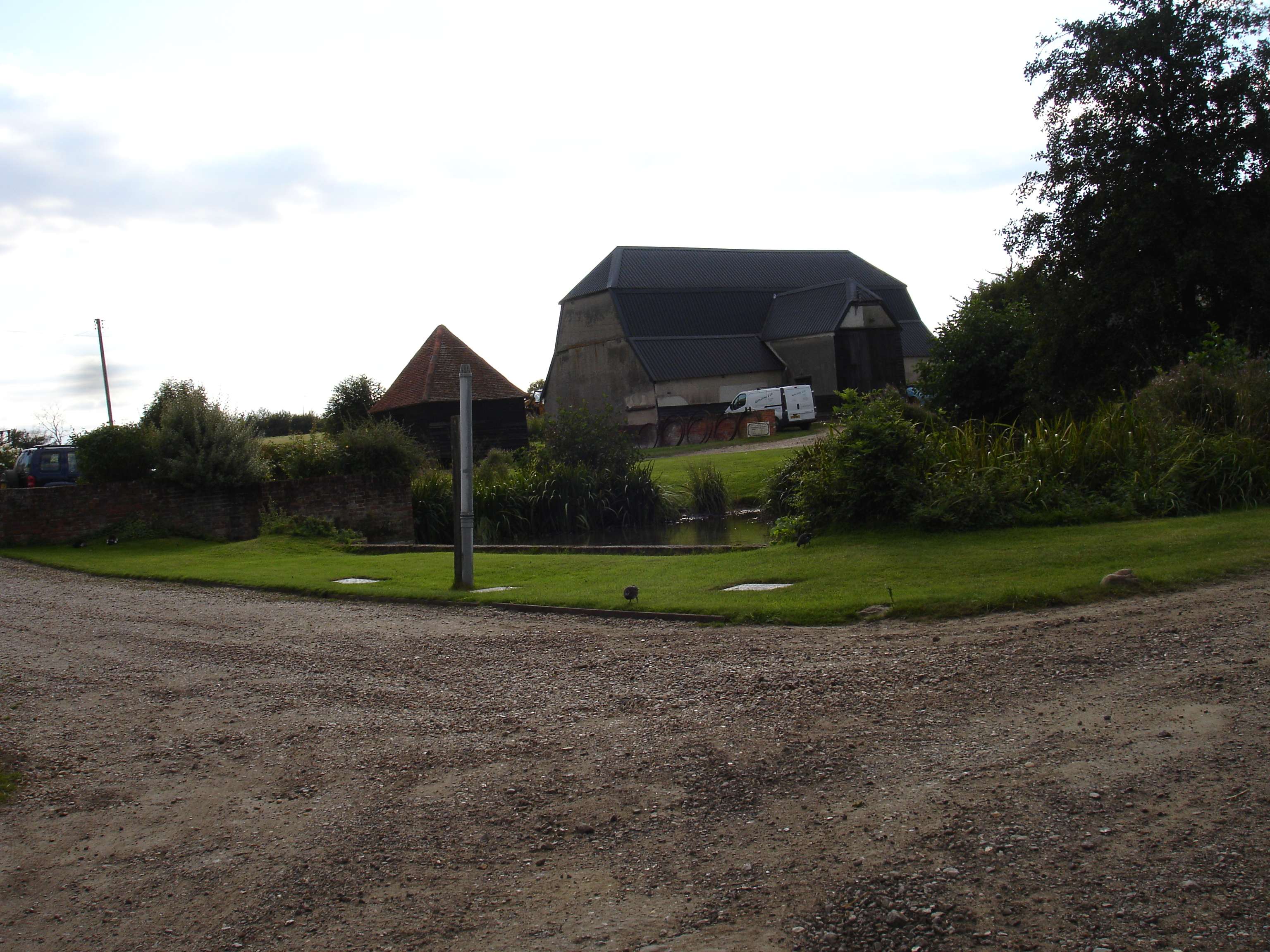 Buildings at Great Priory Farm, Panfield, Essex, England, seen from the northeast. The larger building centre right is a 13th-century barn, rebuilt in the 17th century. The smaller building centre left is a 17th-century granary.